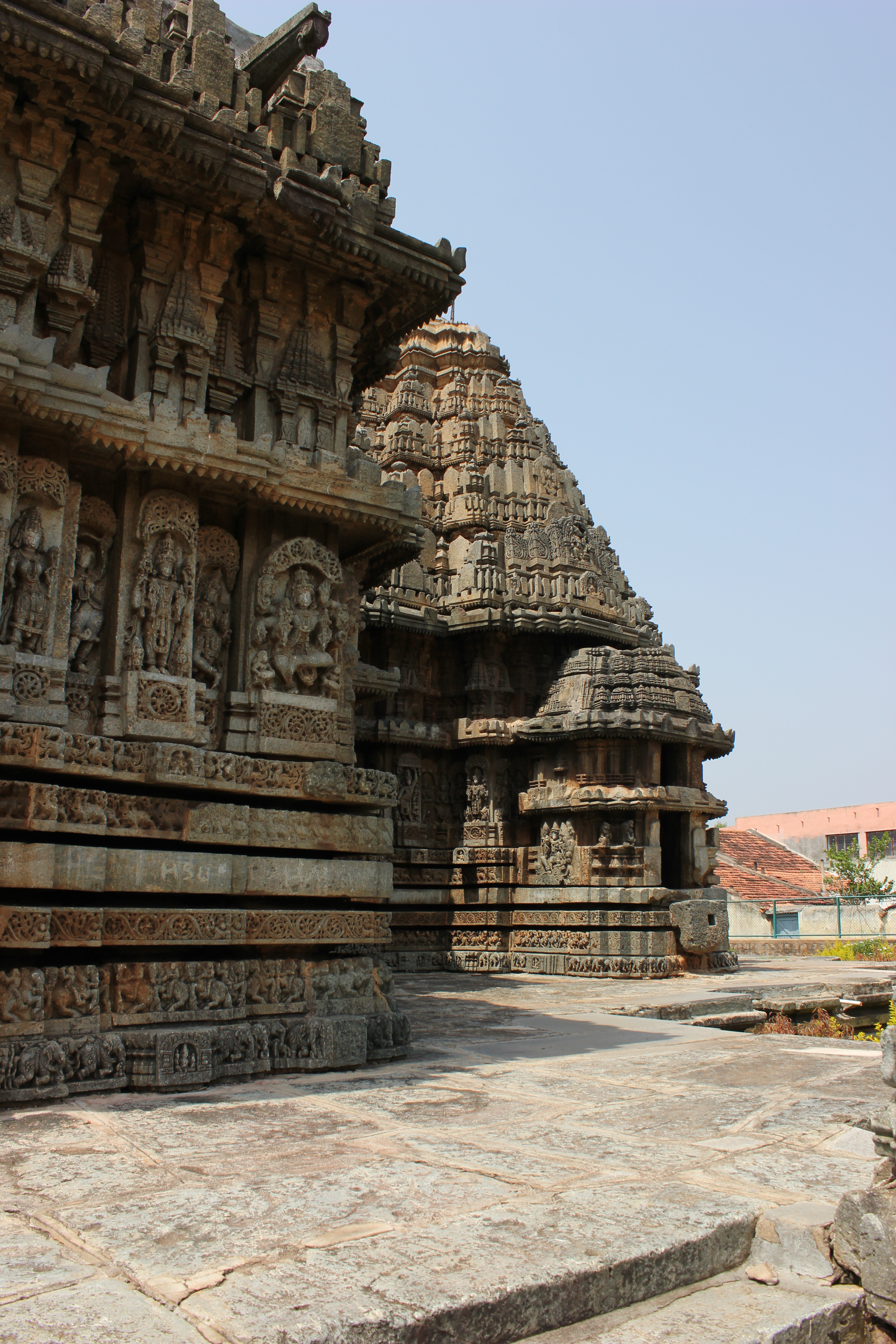 This photograph was taken by me at Haranhalli, Hassan district, Karnataka state, India. The temple, whose main deity is the Hindu god Vishnu, was built in 1235 A.D. by the Hoysala Empire King Vira Someshwara.